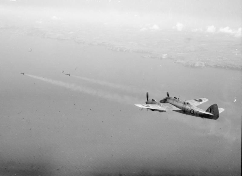 Royal Air Force Coastal Command, 1939-1945. A Bristol Beaufighter TF Mark X of No. 404 Squadron RCAF based at Davidstow Moor, Cornwall, firing a pair of 3-inch rocket projectiles on a range off the Cornish coast.